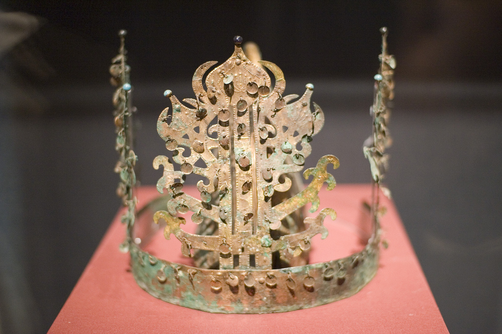 The Gilt-bronze Crown from the Sinchon-ri Tumulus (Najusincholligobunchultogeumdonggwan) is from the Three Kingdoms of Korea period. It was designated as the 295th national treasure of Korea on September 22, 1997 and is currently housed at the National Museum of Korea.